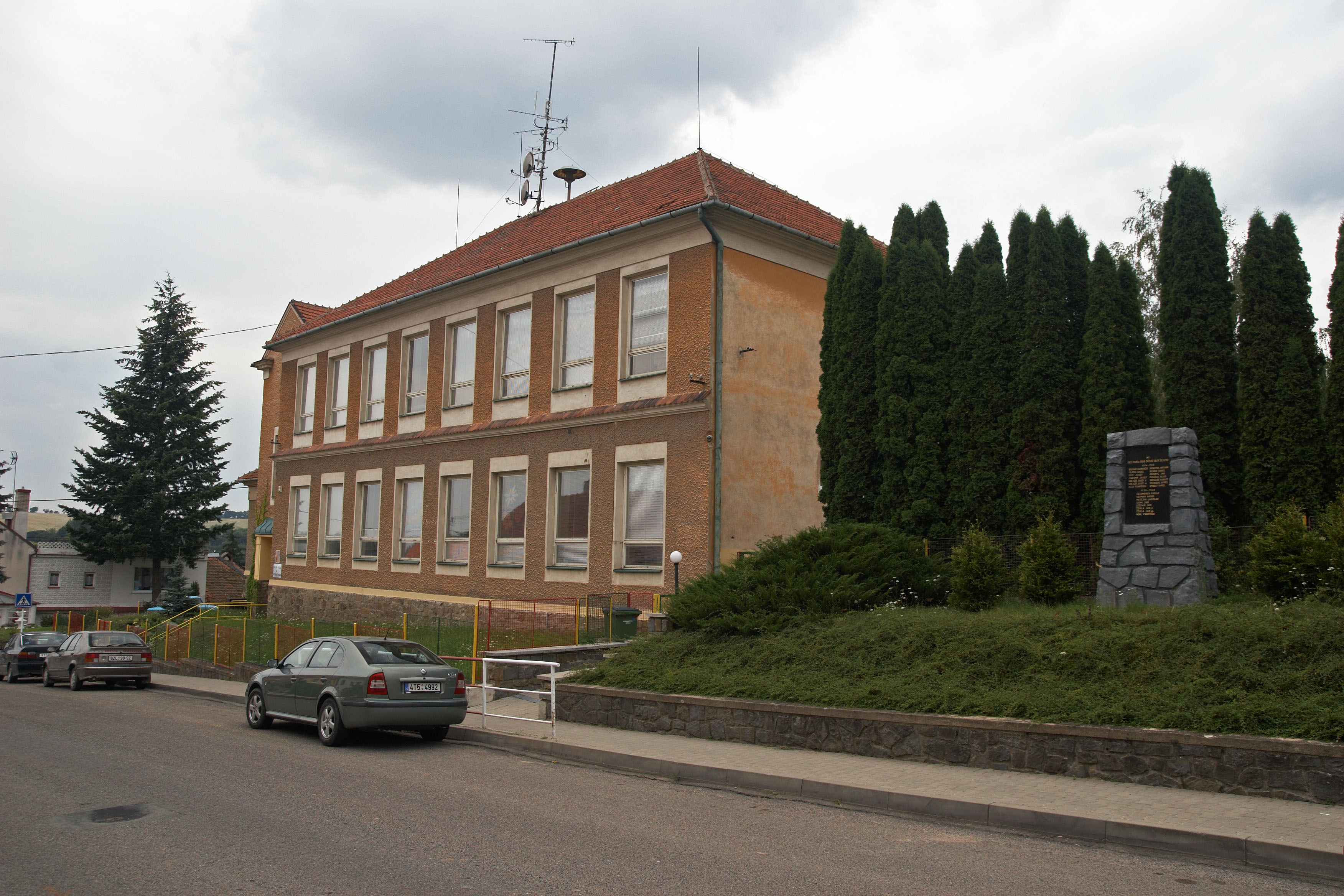 Nemojany - school and a war memorial